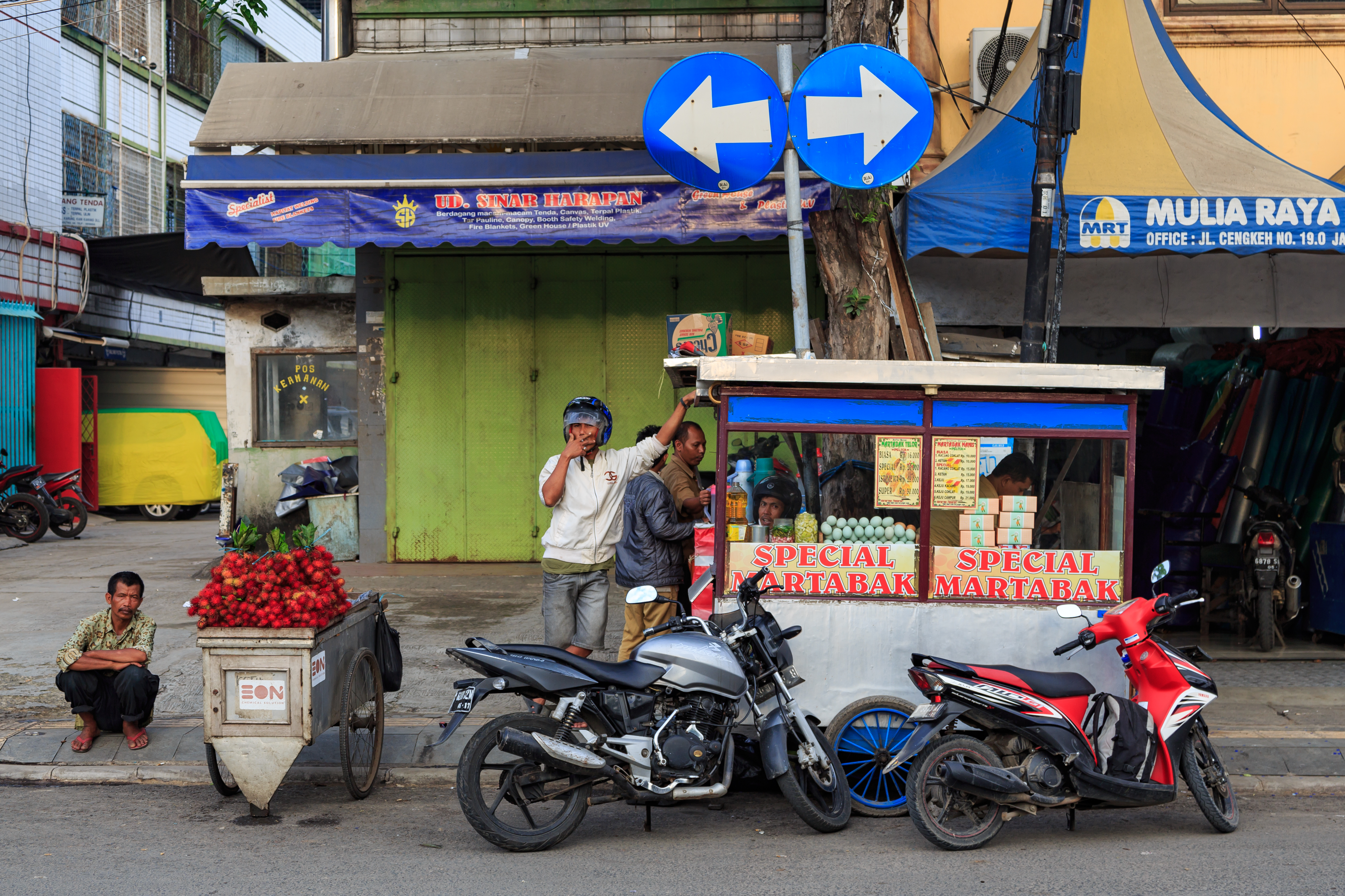 Jakarta, Indonesia: Hawkers with mobile food bussiness in Old town Jakarta.